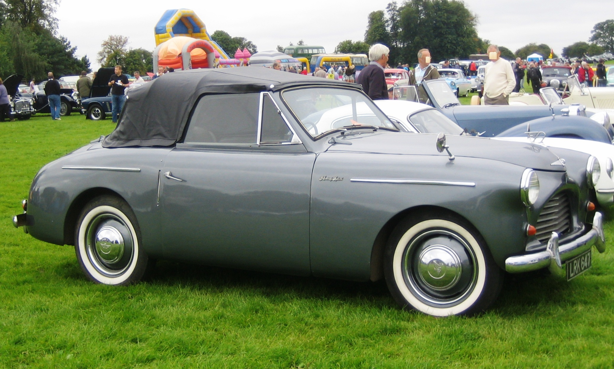 Austin A40 Sports / Roadster at Knebworth Classic Car Show